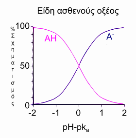 weak acid speciation